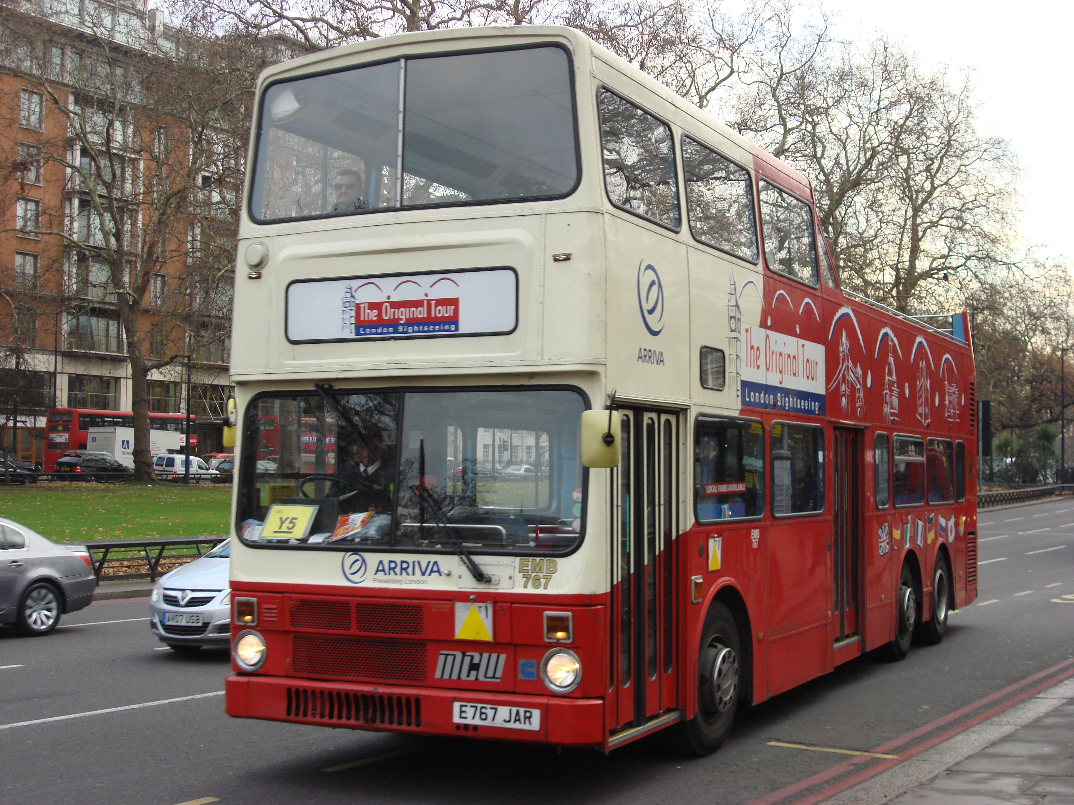 The Original Tour bus EMB767 (reg. E767 JAR), a 1987 MCW Super Metrobus double-decker, pictured heading north up Park Lane in central London, operating the company's yellow tour. It's a high capacity tri-axle 12m long bus, delivered new to Hong Kong operator China Motor Bus as their fleet no. ML54 (reg. DU 3460). See Second-hand Hong Kong tri-axle buses imported to the United Kingdom for a full vehicle history.